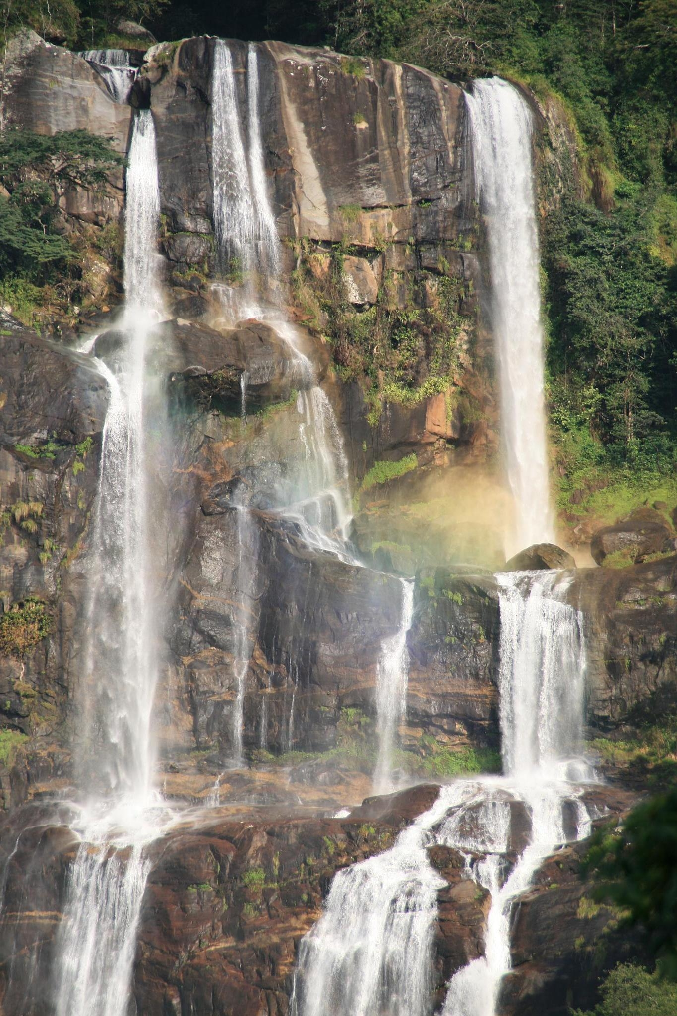 Waterfall in Udzungwa Mountains National Park, Tanzania